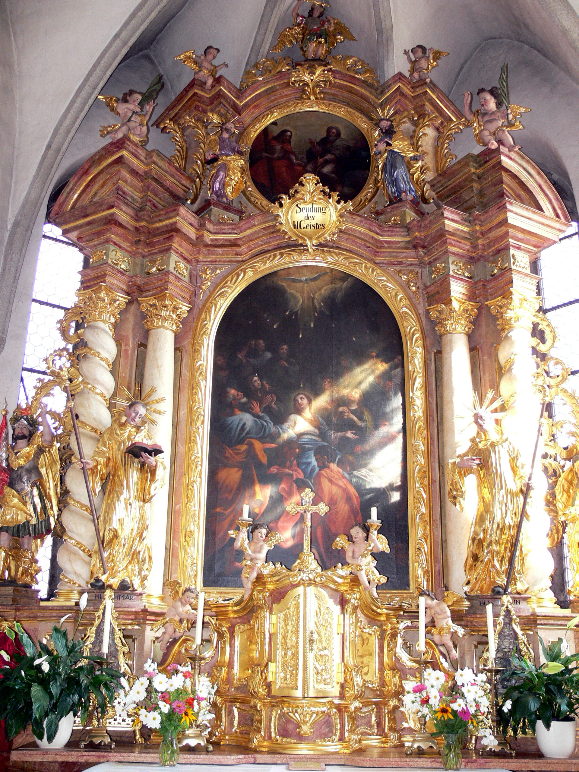 Parish church Saint Othmar in Kirchberg. High altar ( 1710 ) with painting "The Mission of the Holy Spirit" by Johann Philipp Ruckerbauer